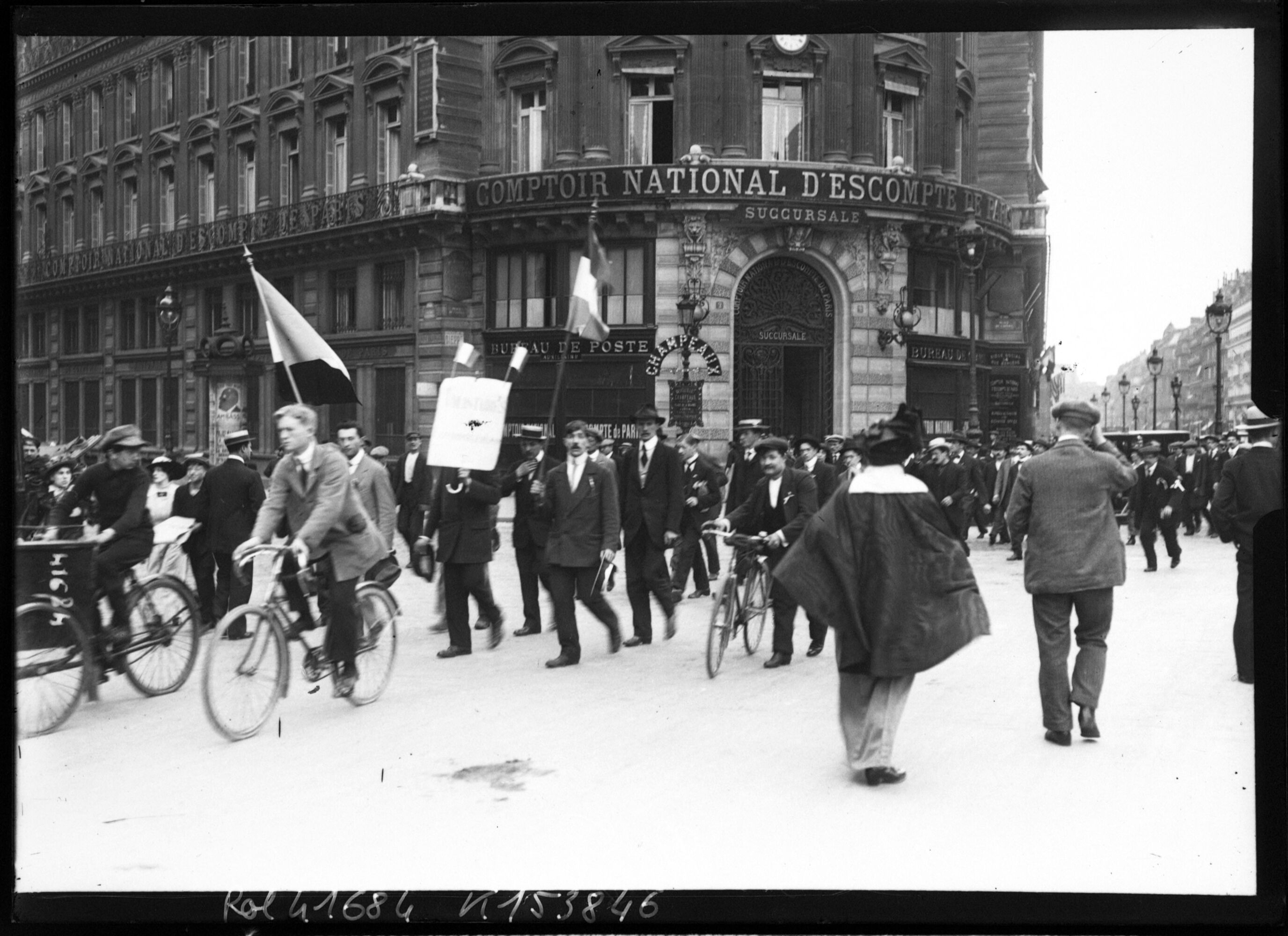 Mobilization of august 1914 place de l'Opera in Paris.